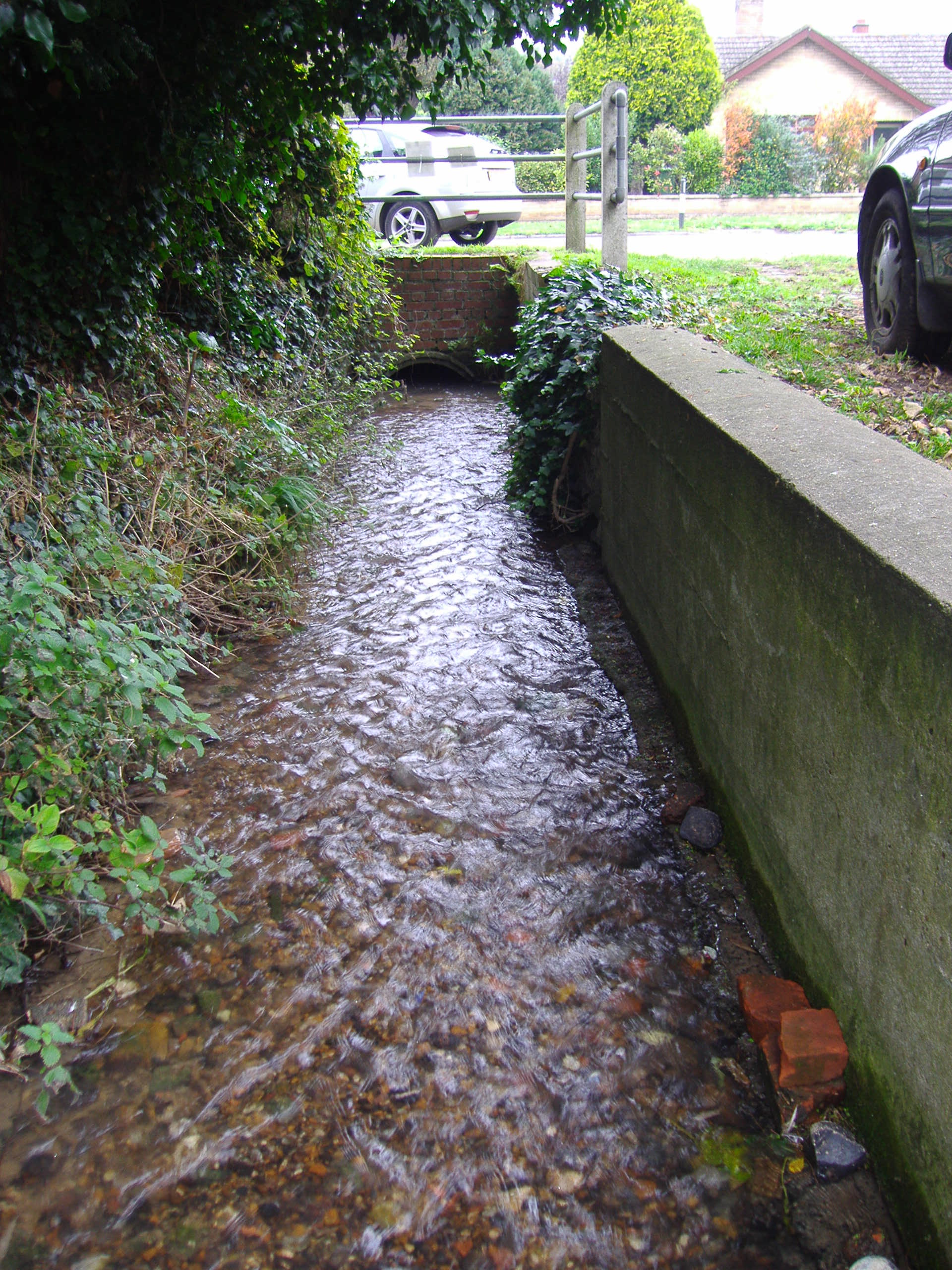 a Digital Photograph of Spring Beck in Weybourne, Taken on the 22nd October 2007 by stavros1